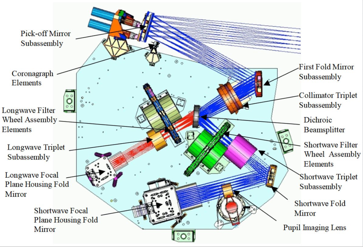 JWST NIRCam optical layout